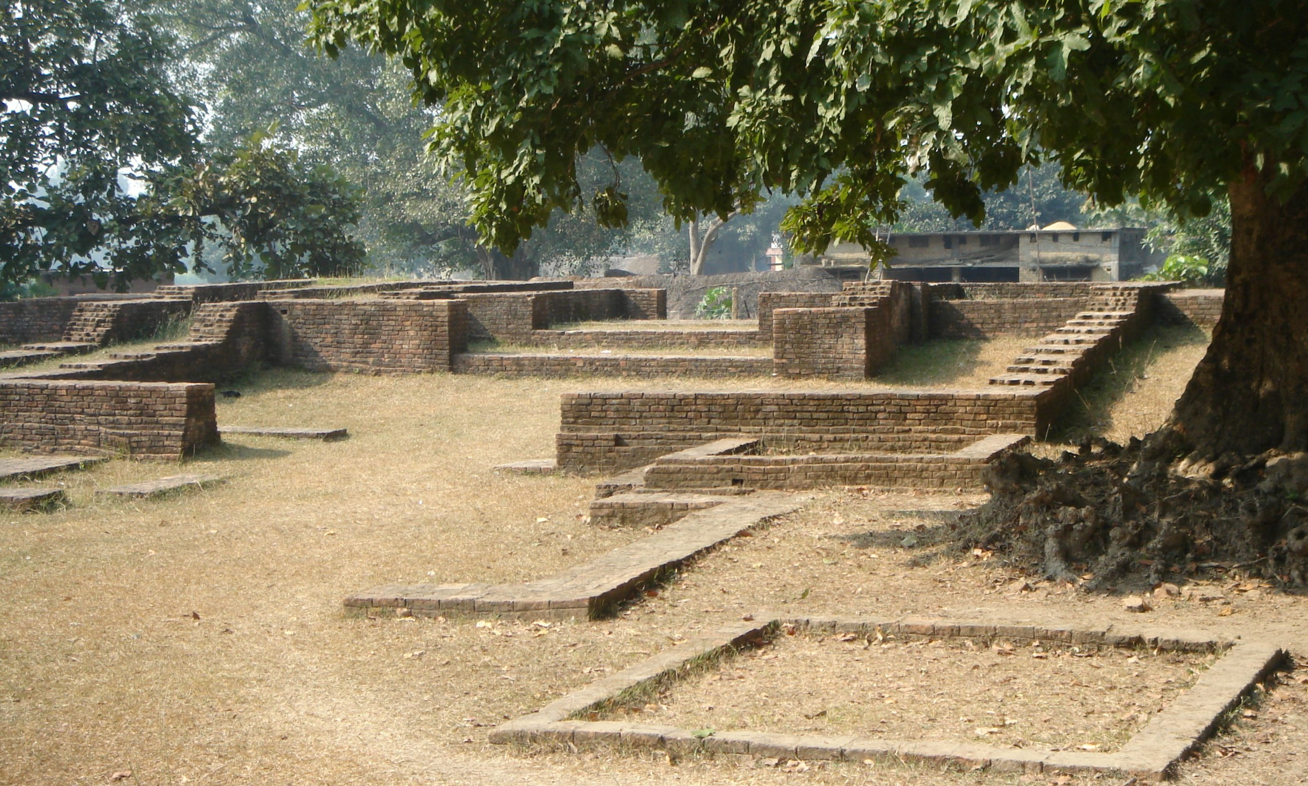 Remains of the Western Gate of Kapilavastu (also: Kapilavatthu) in Nepal (close to Lumbini). Gautama Buddha grew up in this city.